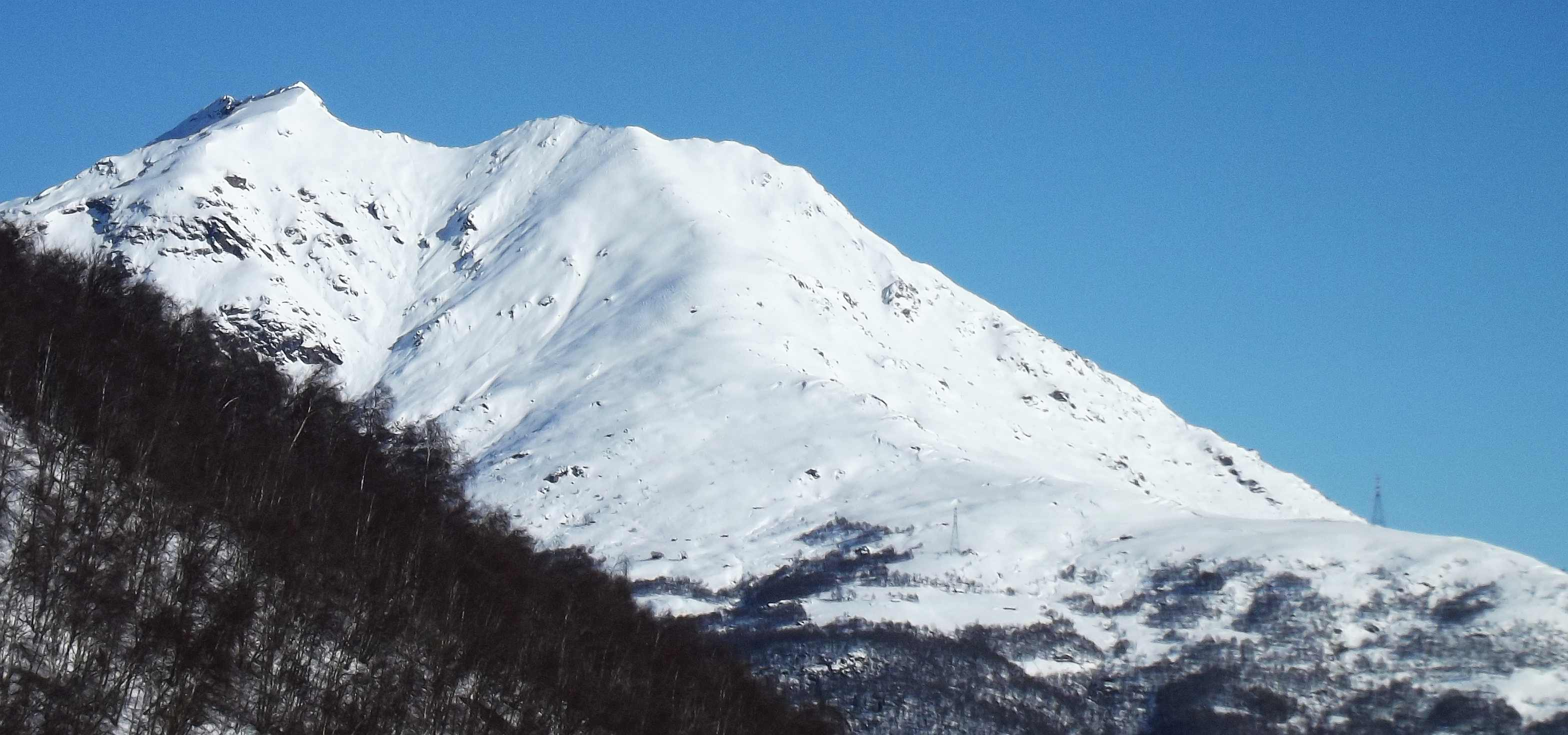 Punta Quinseina south slopes (from alpe Pacarina area)